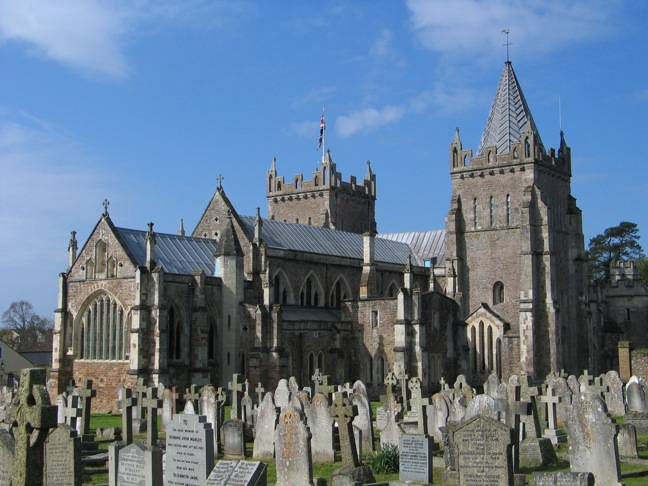 Ottery St. Mary's church, taken from the Northeast